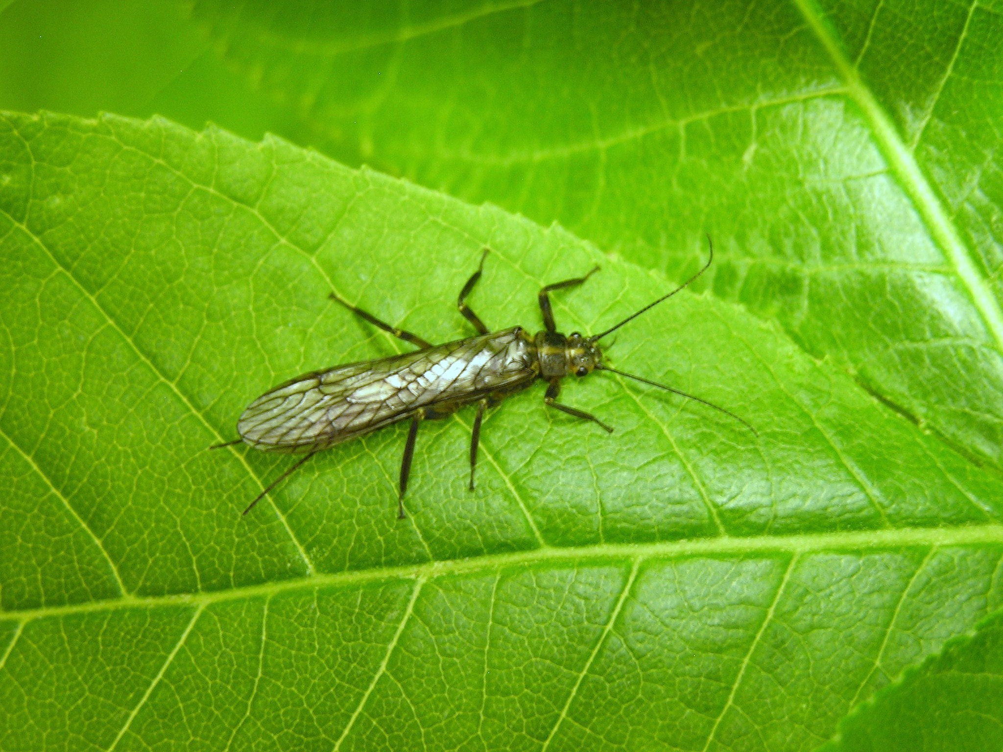 Helopicus subvarians adult reared from nymph. Ausable River, southern Ontario.